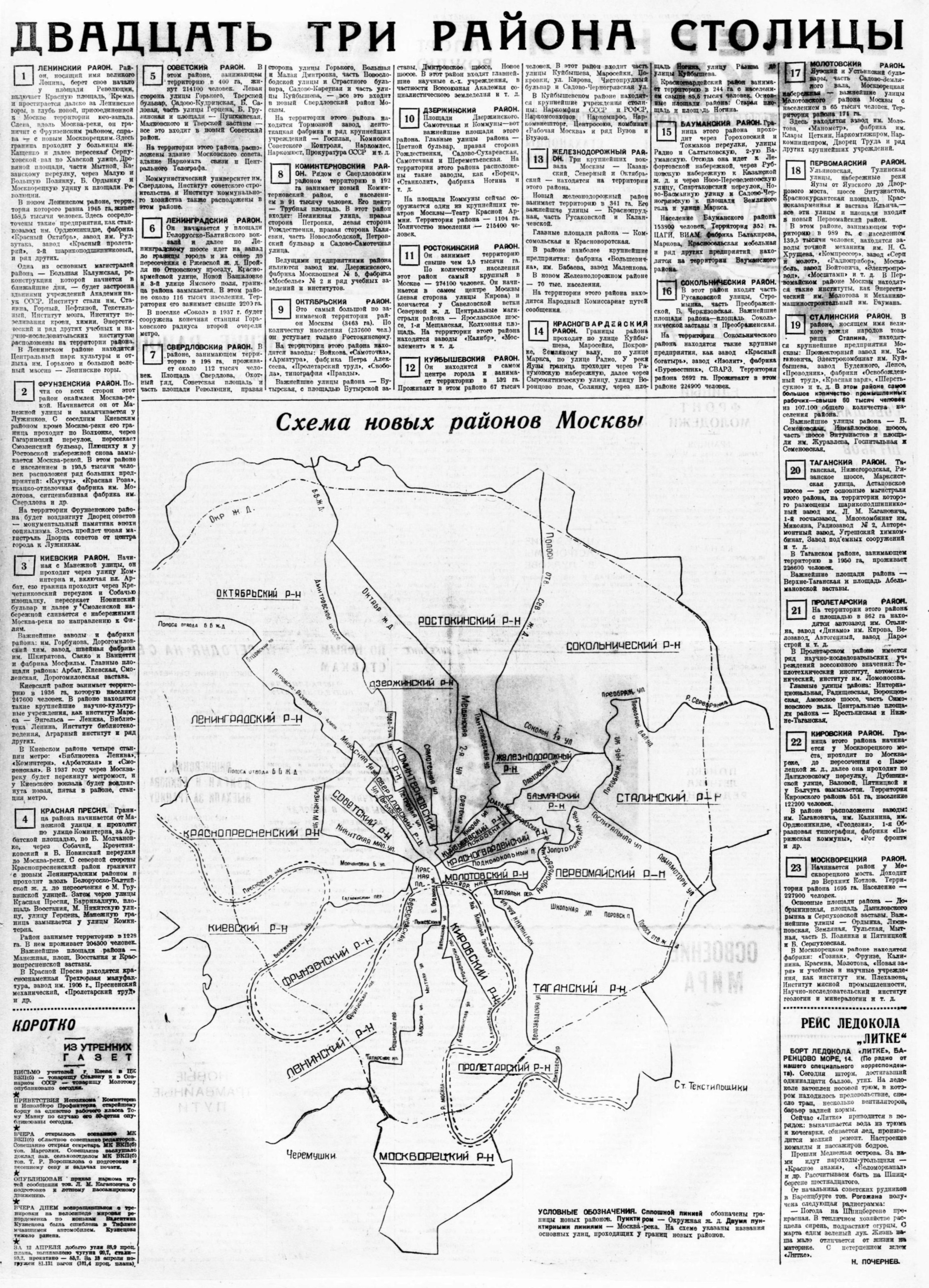 Soviet newspaper Vechernyaya Moskva from April 15, 1936 with a description of the boundaries of the new administrative-territorial division of Moscow